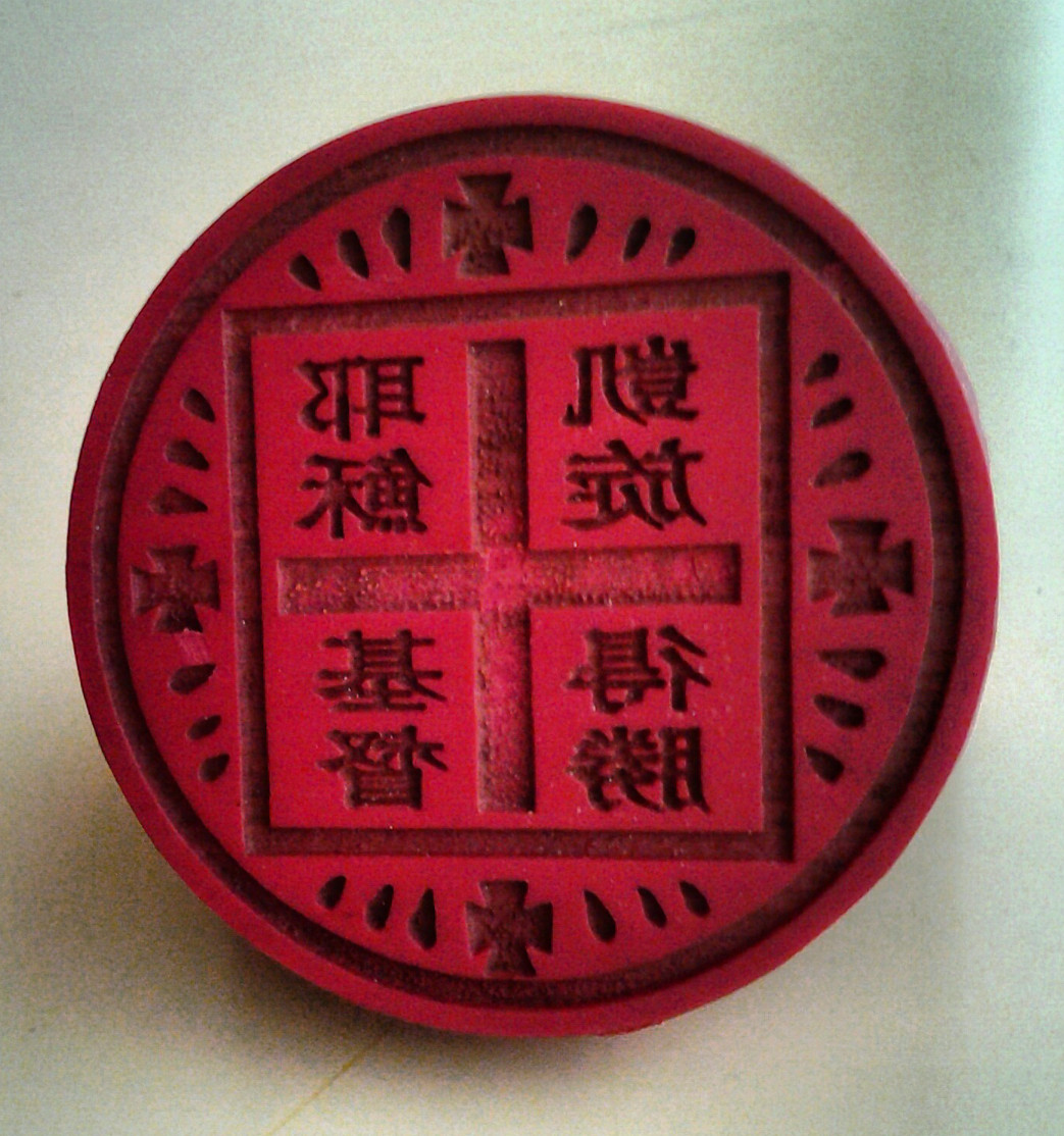 Chinese Orthodox communion bread seal (stamp). Church of prime Apostles in Hong Kong. Material: plastic.